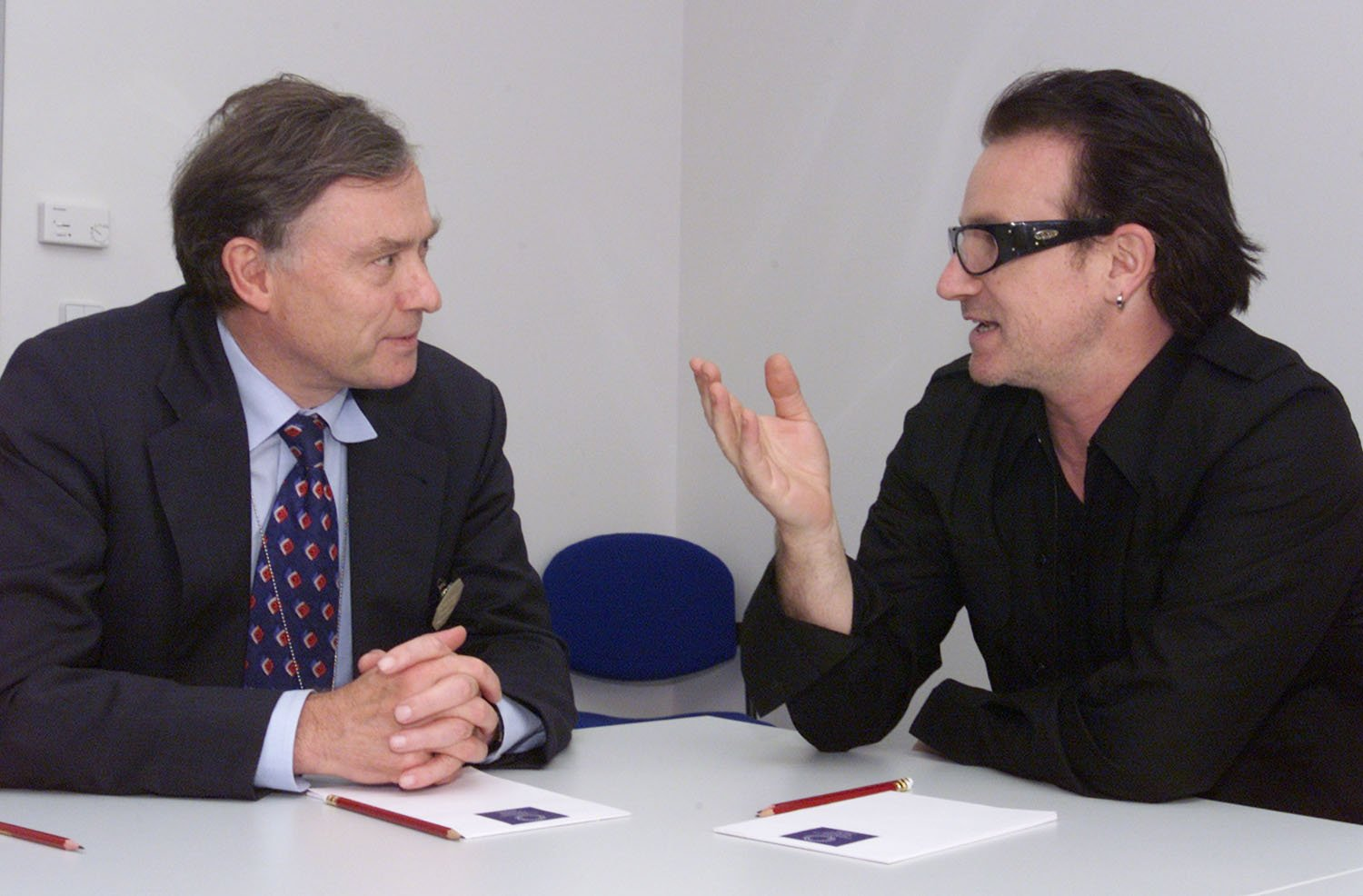 Paul David Hewson (Bono) talking to IMF Managing Director Horst Köhler (later president of Germany) and discussing debt relief at the Prague Congress Centre in 2000 in Prague